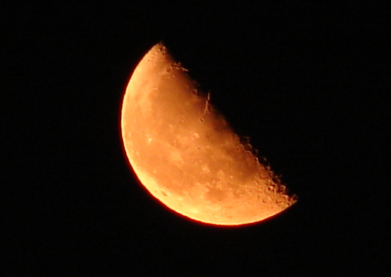 Moon turning red because of physical phenomena